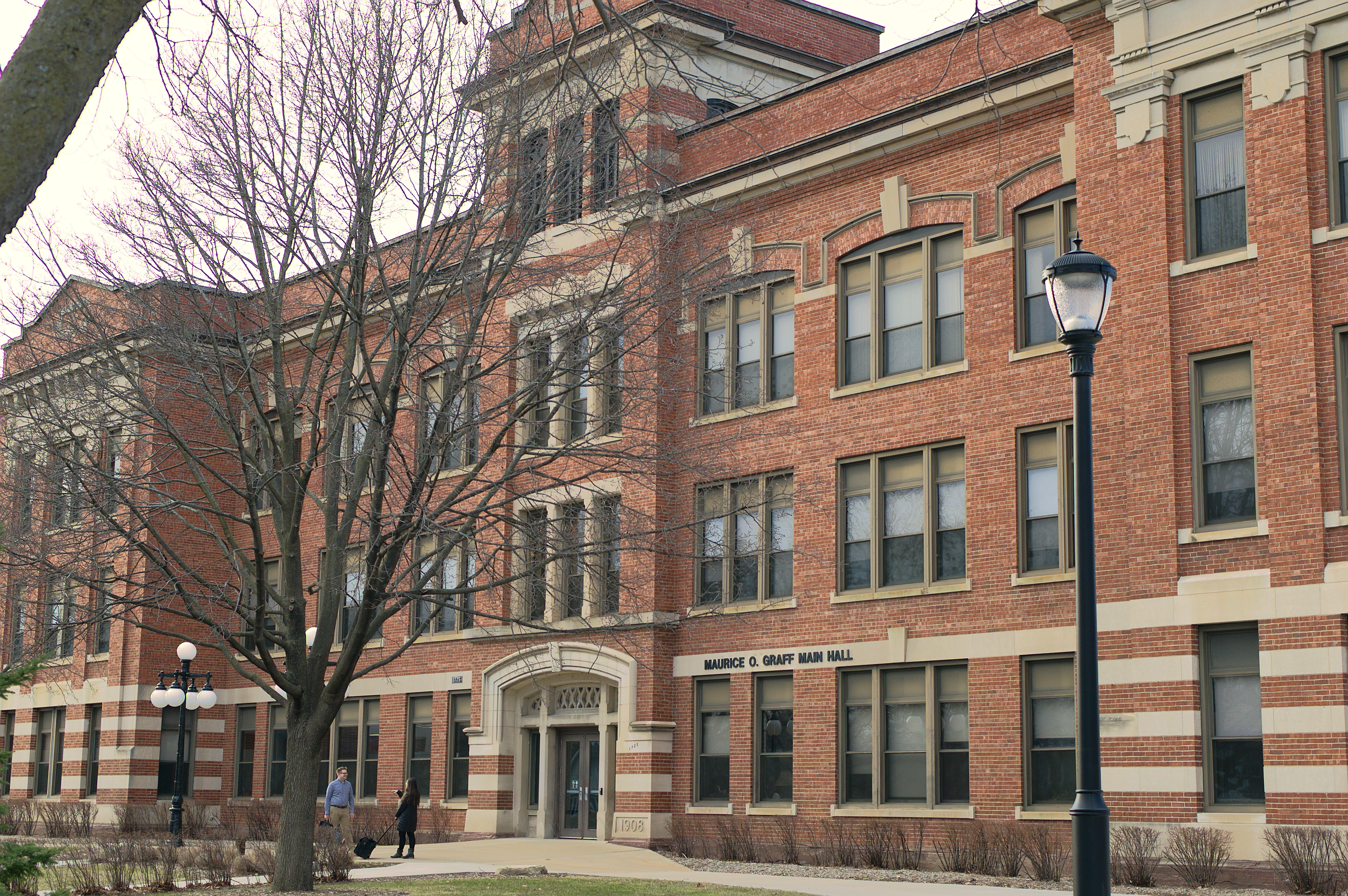 Maurice O. Graff Main Hall, or Graff Main Hall for short, is the oldest building on campus, completed in 1909.